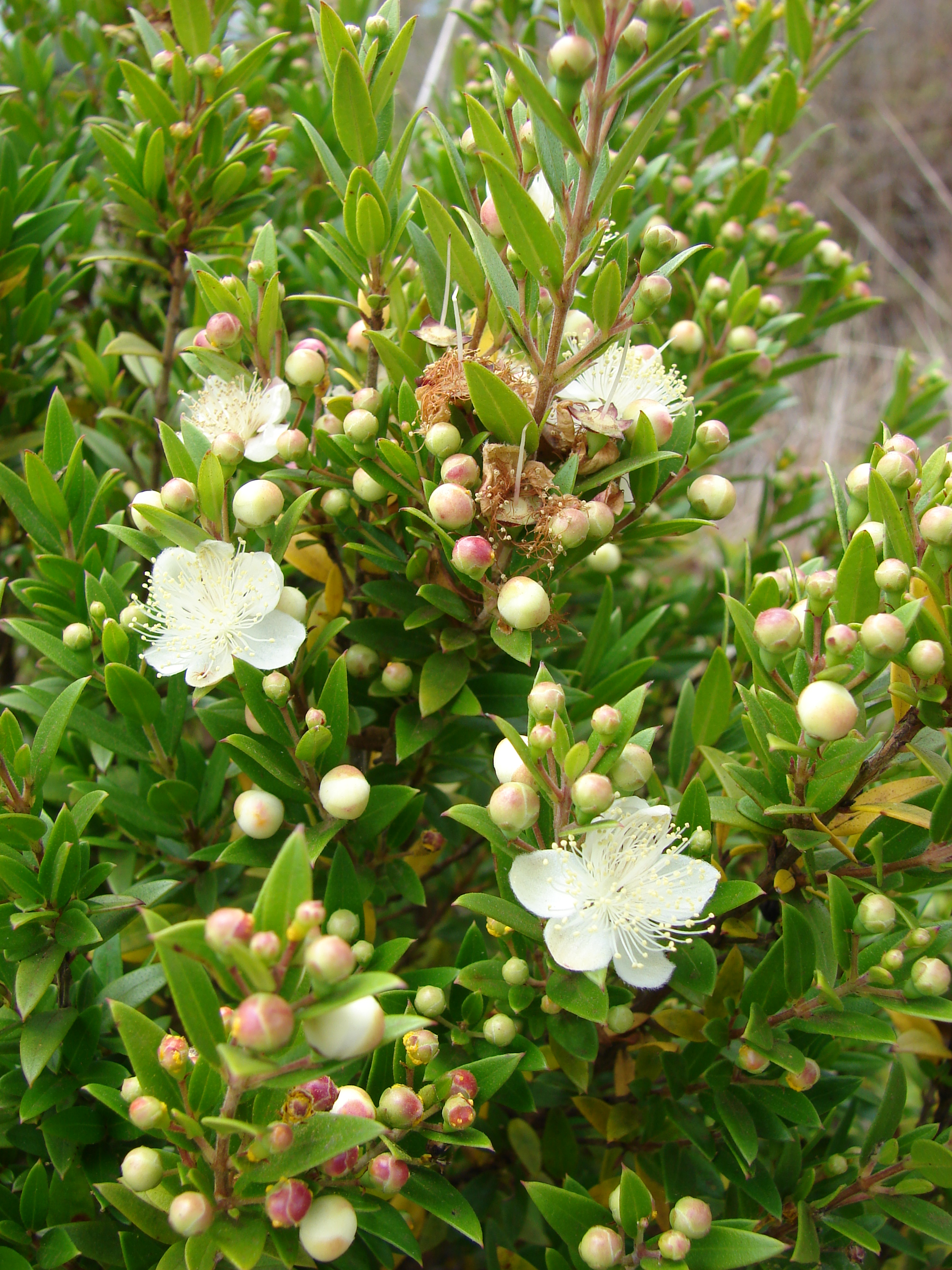 Myrtus communis (flowers and leaves). Location: Maui, Upper Kimo Dr Kula